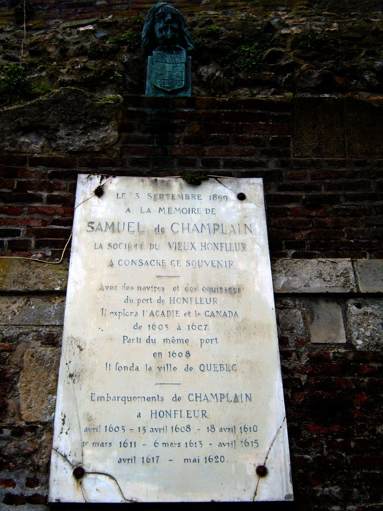 commemorative plaque in Honfleur for the departure of Champlain in North America